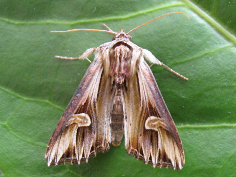 Actinotia polyodon. Location: The Netherlands - Clinge - Bos zuid van Clinge